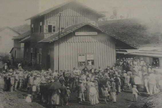 Rio Caçador train station, seen from Osório Timermann street. Circa 1910.